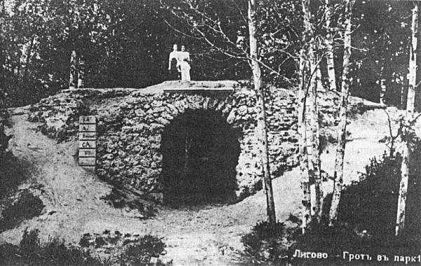 Grotto in Ligovo